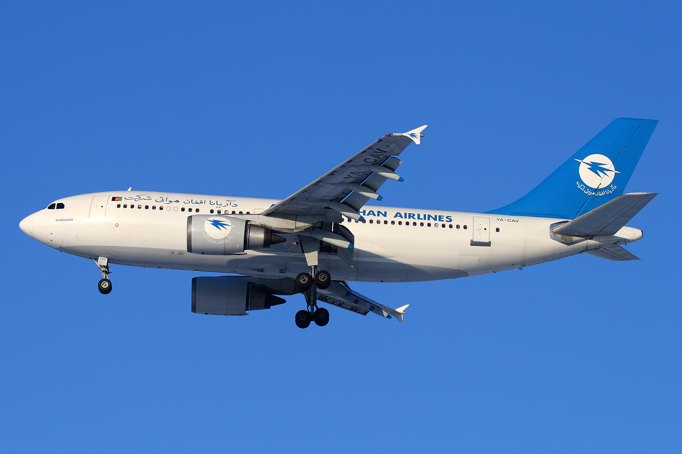 An Ariana Afghan Airlines Airbus A310-304 on short final to Sheremetyevo Airport (SVO / UUEE)